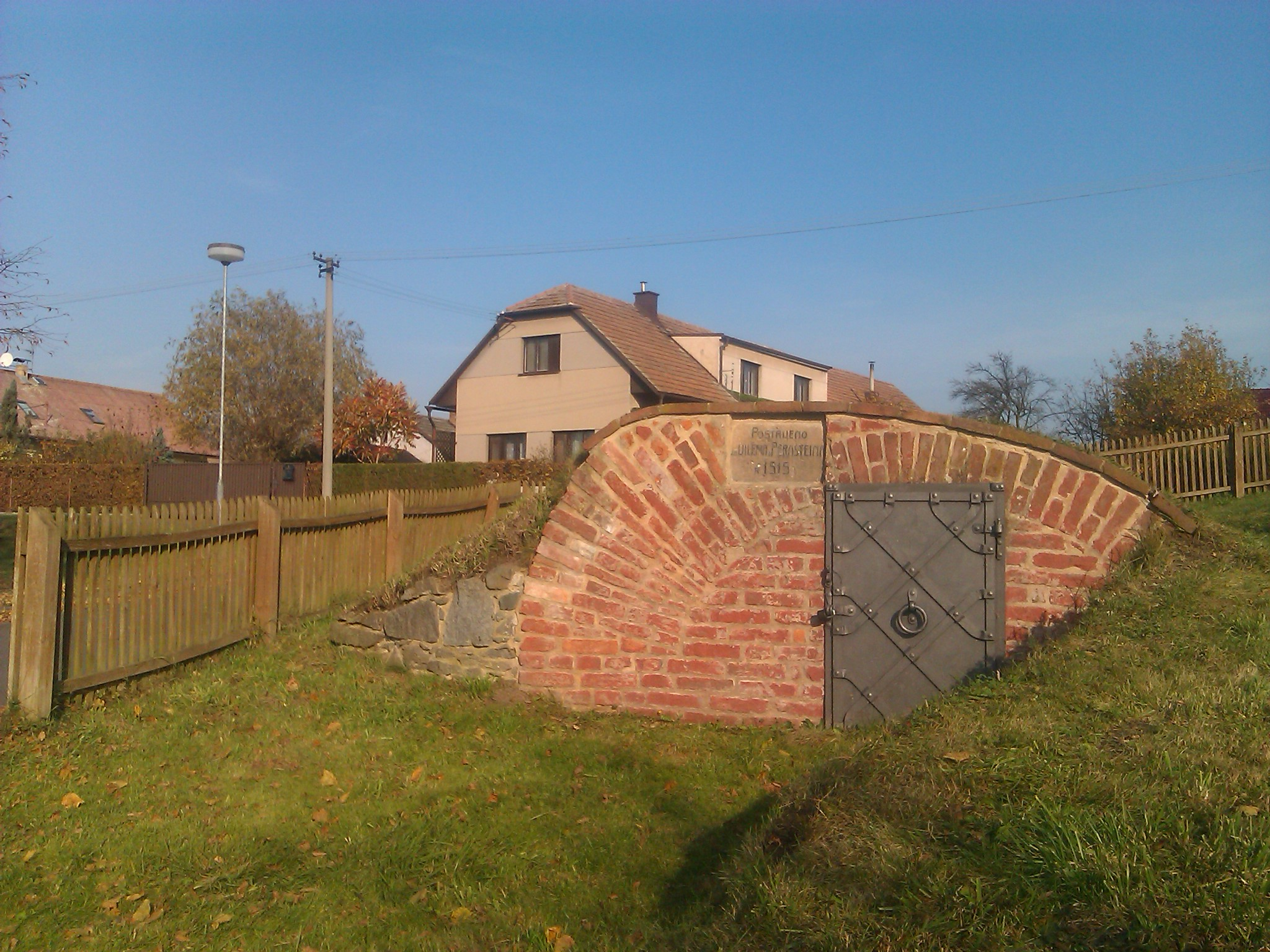 Water well of Lords of Penštejn in Srch (Czech Republic)